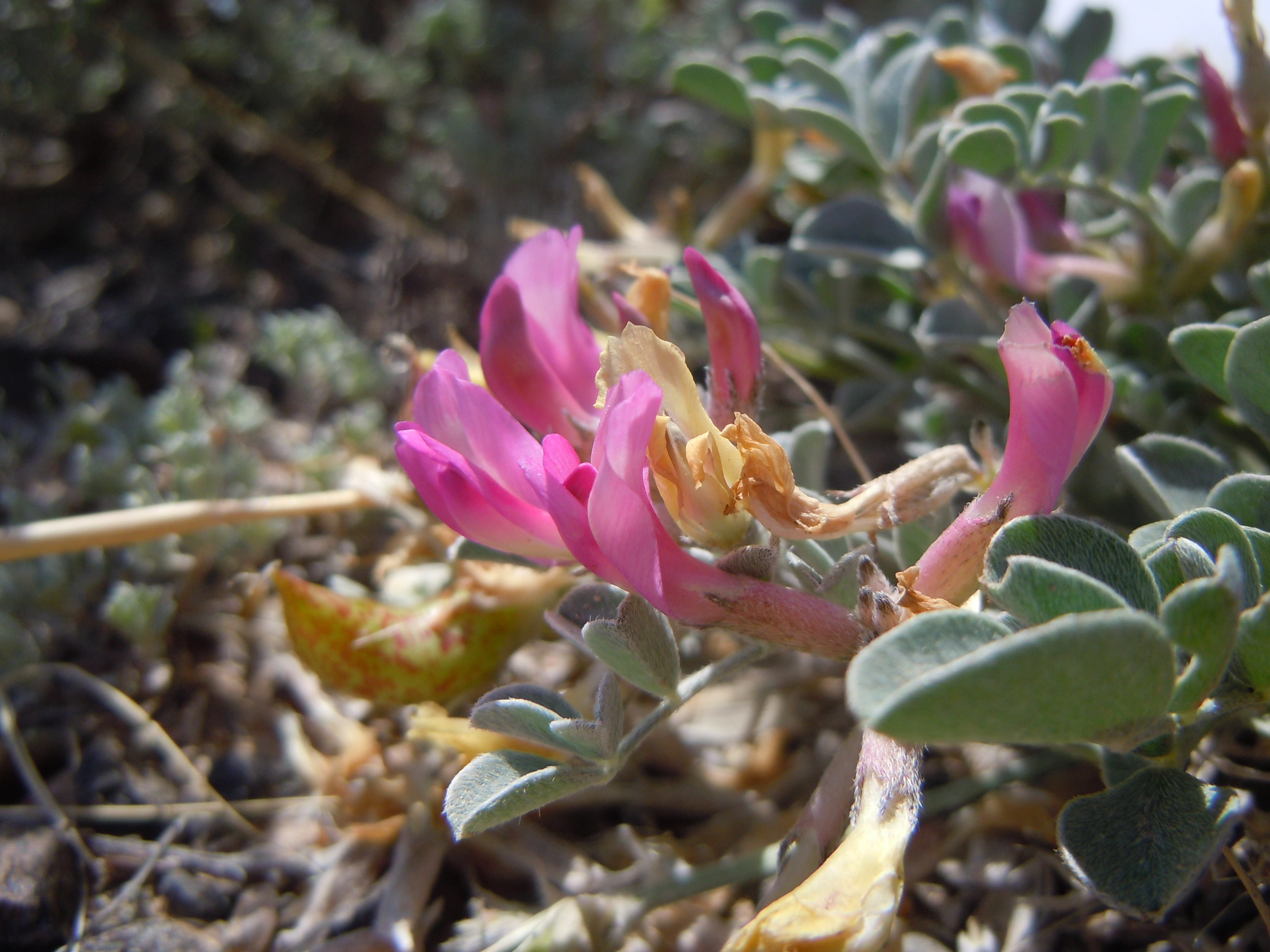 One of the sporadically common legumes inhabiting the Wyoming big sagebrush steppe along the south end of the Pryor Mountains.This species is distinguished from Astragalus missouriensis in part by the widely elliptic leaflets with rounded apices.